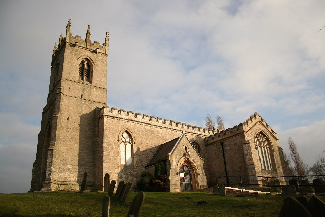 All Saints' parish church, Harworth, Nottinghamshire, seen from the southwest